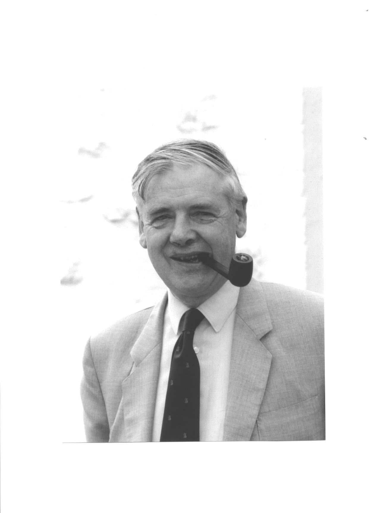 John Hammersley, at home in Oxford